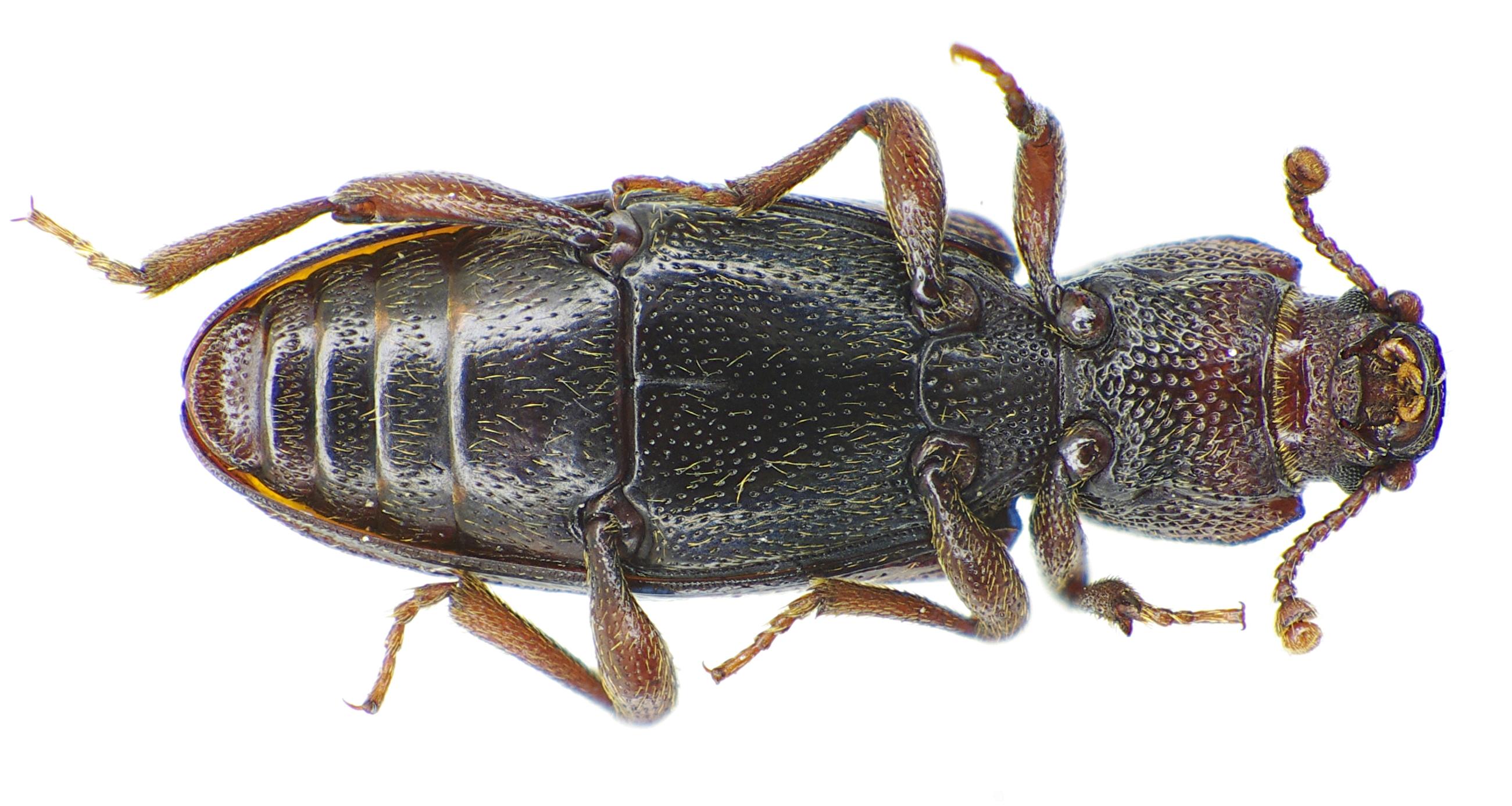 Bothrideres bipunctatus from Hungary, village Kötelek under bark of poplar at 2012-06-21